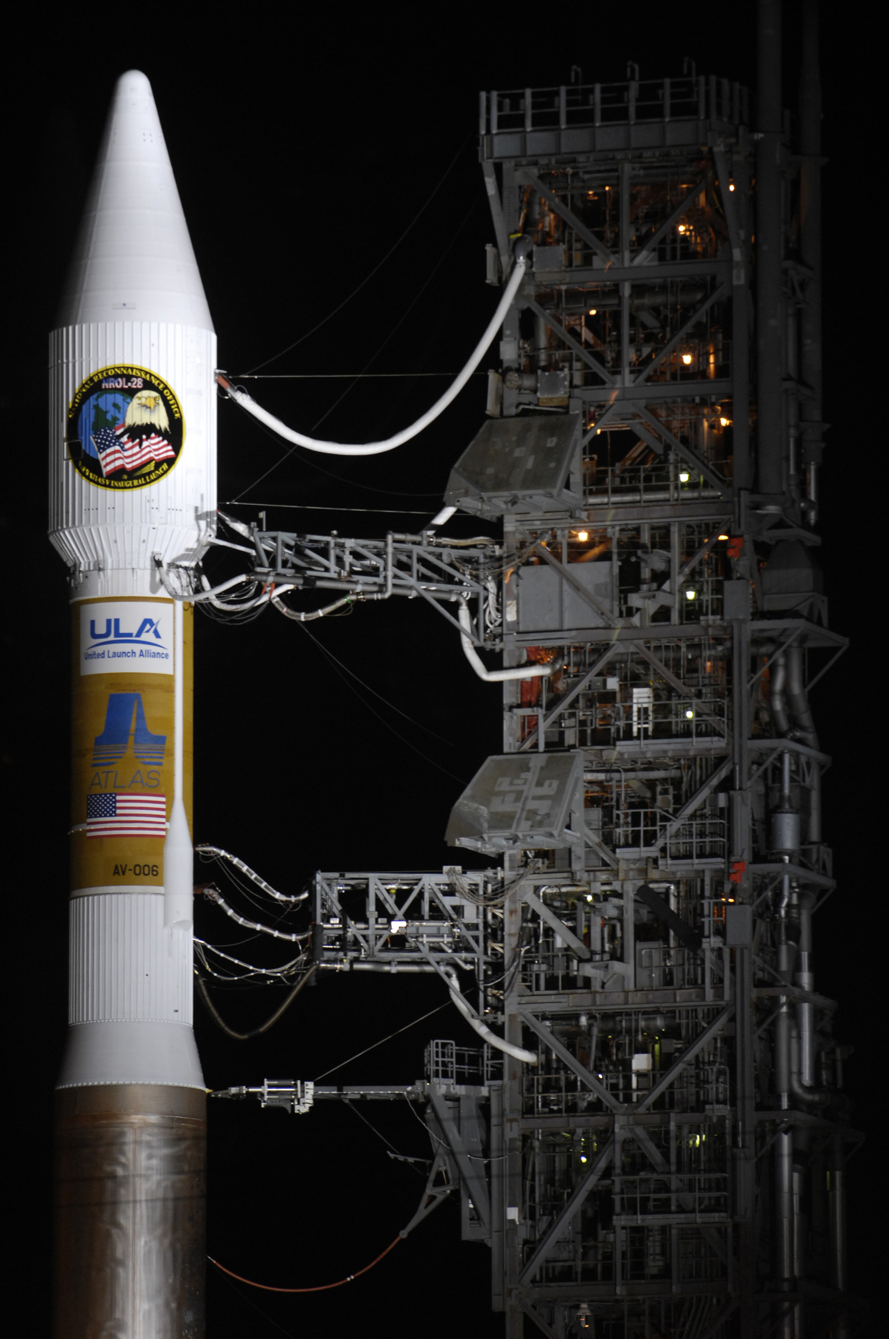 First Atlas V Launch from Vandenberg and the West Coast VANDENBERG AIR FORCE BASE, Calif. -- An Atlas V stands on Space Launch Complex-3 during its mobile servicing tower rollback on March 12. Col. Steve Tanous, 30th Space Wing commander, will be the space lift commander for this mission. This will be the first Atlas V launched from Vandenberg and the west coast, as well as the first launch of the year. This milestone for Team Vandenberg is the product of the combined efforts of the 30th Space Wing, the National Reconnaissance Office, United Launch Alliance, the Space and Missile Systems Center, the Aerospace Corporation and more. SLC 3 was significantly modified to get ready for the next generation of space launch vehicles. The Atlas V will be its first launch since the modifications were completed. Previously used for 21 Atlas II launches, the pad received significant upgrades to accommodate the larger and more powerful booster. The tower was made taller, the overhang was extended with a much bigger crane, and the entire pad deck was reconfigured. The pad also features a brand new fixed launch platform.